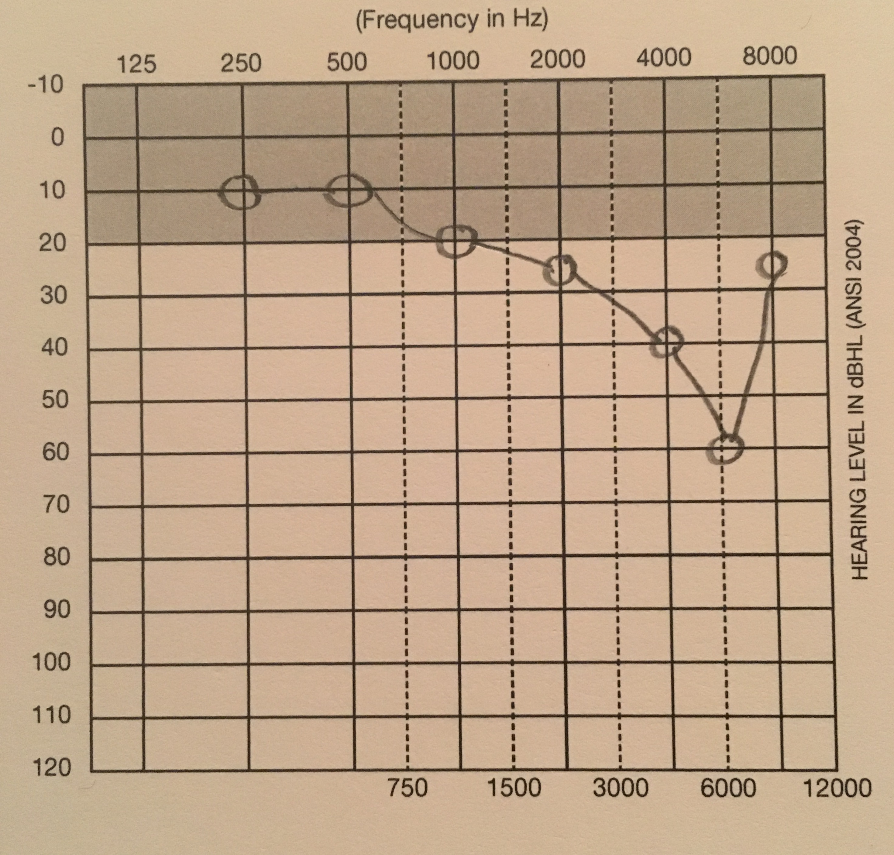 Example of Notched Audiogram